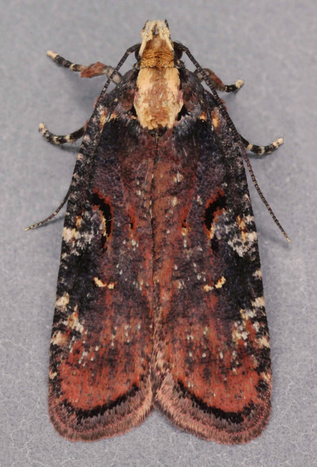 Agonopterix liturosa, Marford Quarry, North Wales, July 2010